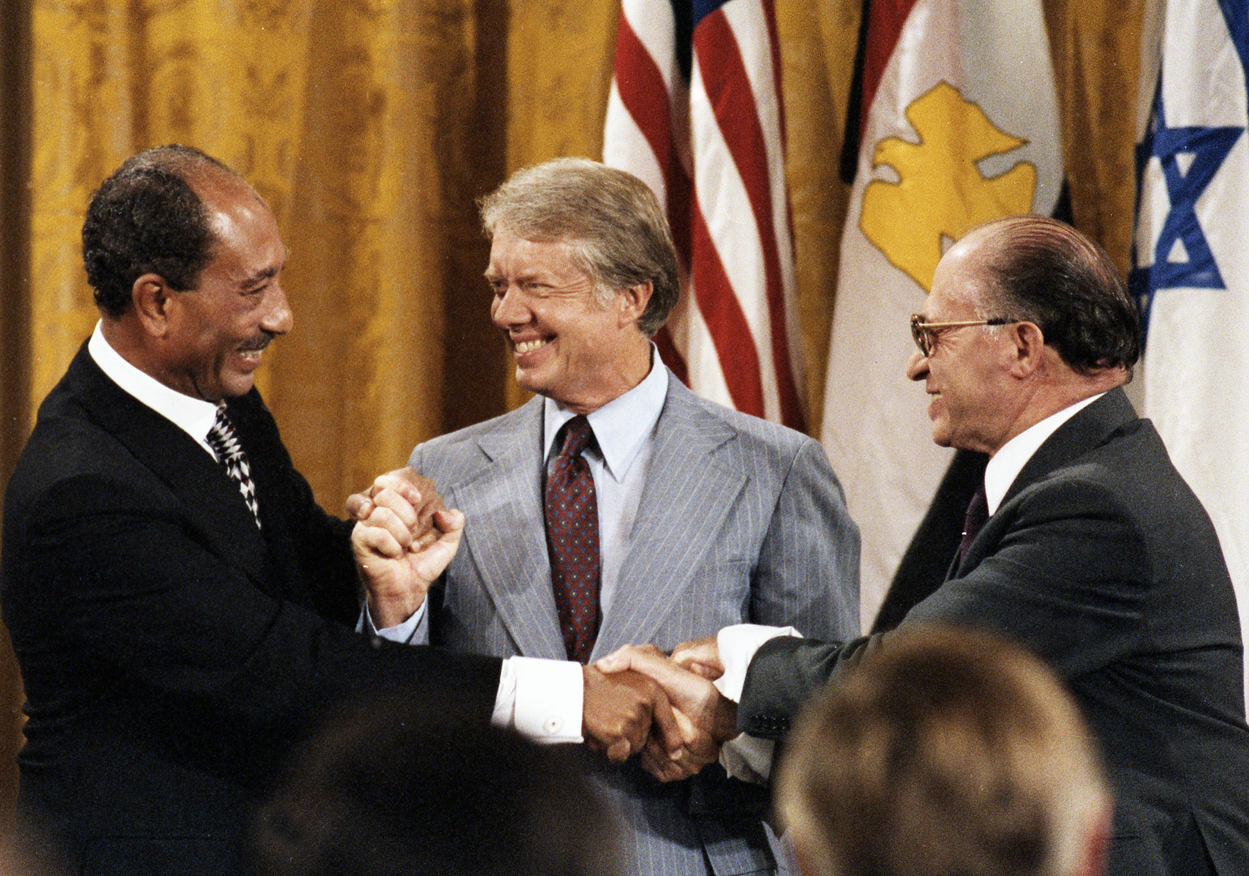 Photo courtesy of Jimmy Carter Library